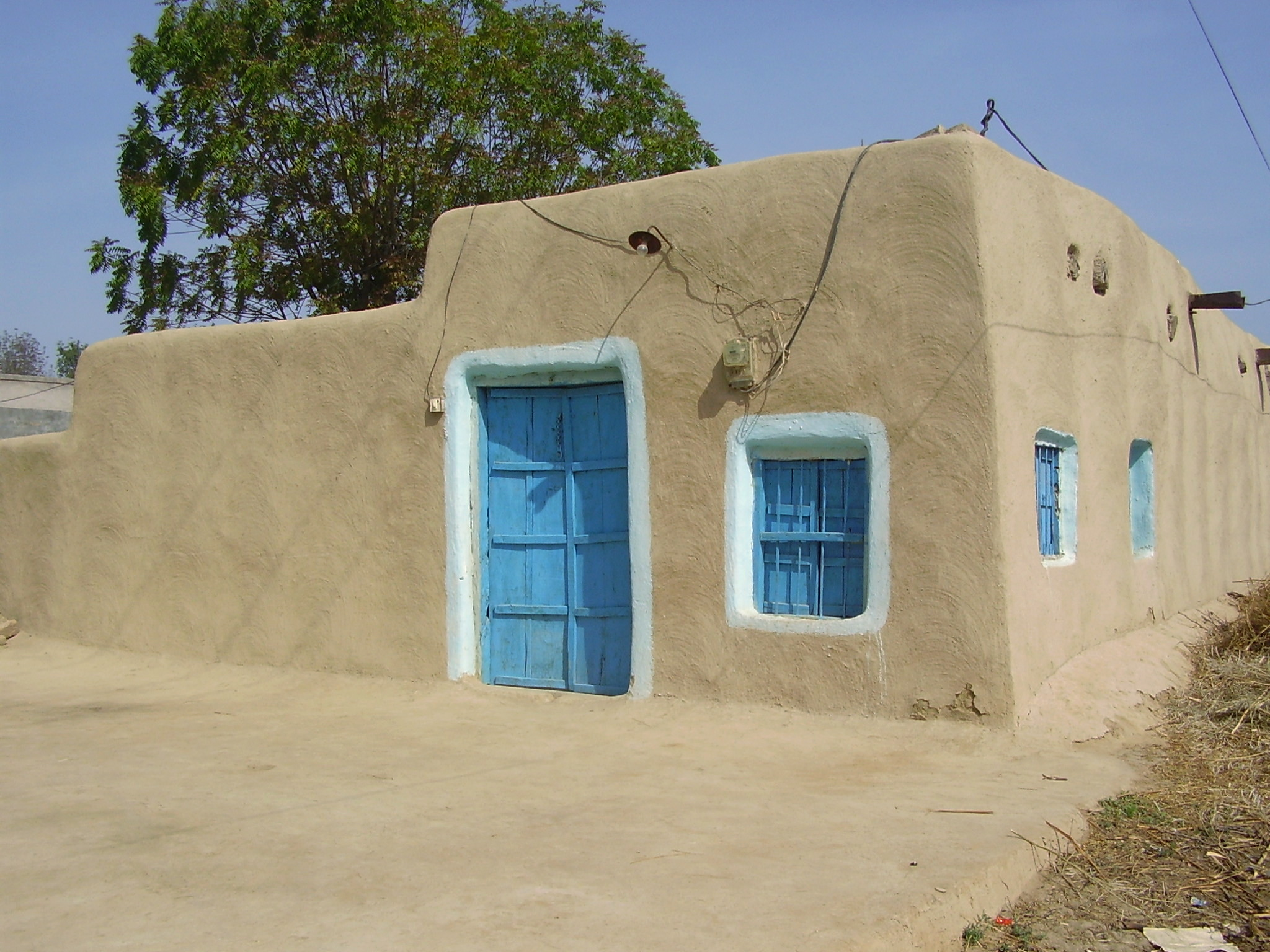 It is a typical old fashioned mud brick rural Punjabi home.